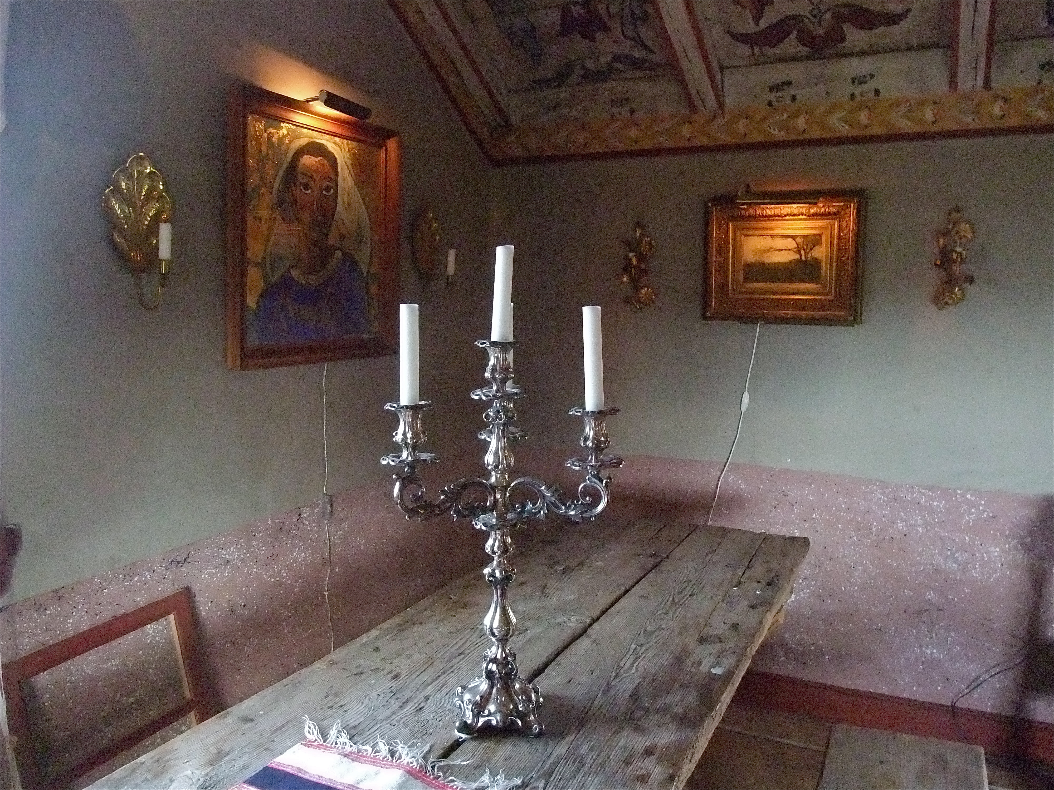 The feast room in Norr Enby gård, the room was used for weddings from 1750.